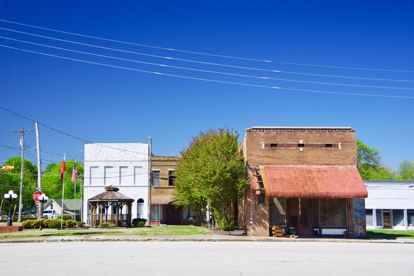 Buildings in Dyer, Tennessee, United States, viewed from Front Street.